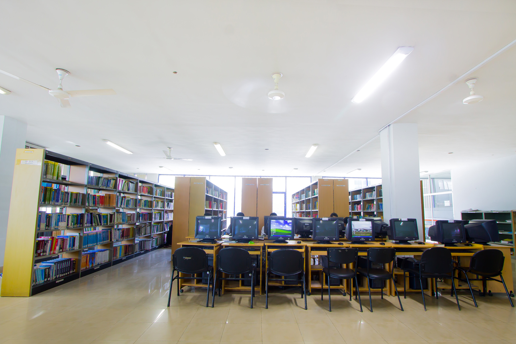 UIU Library